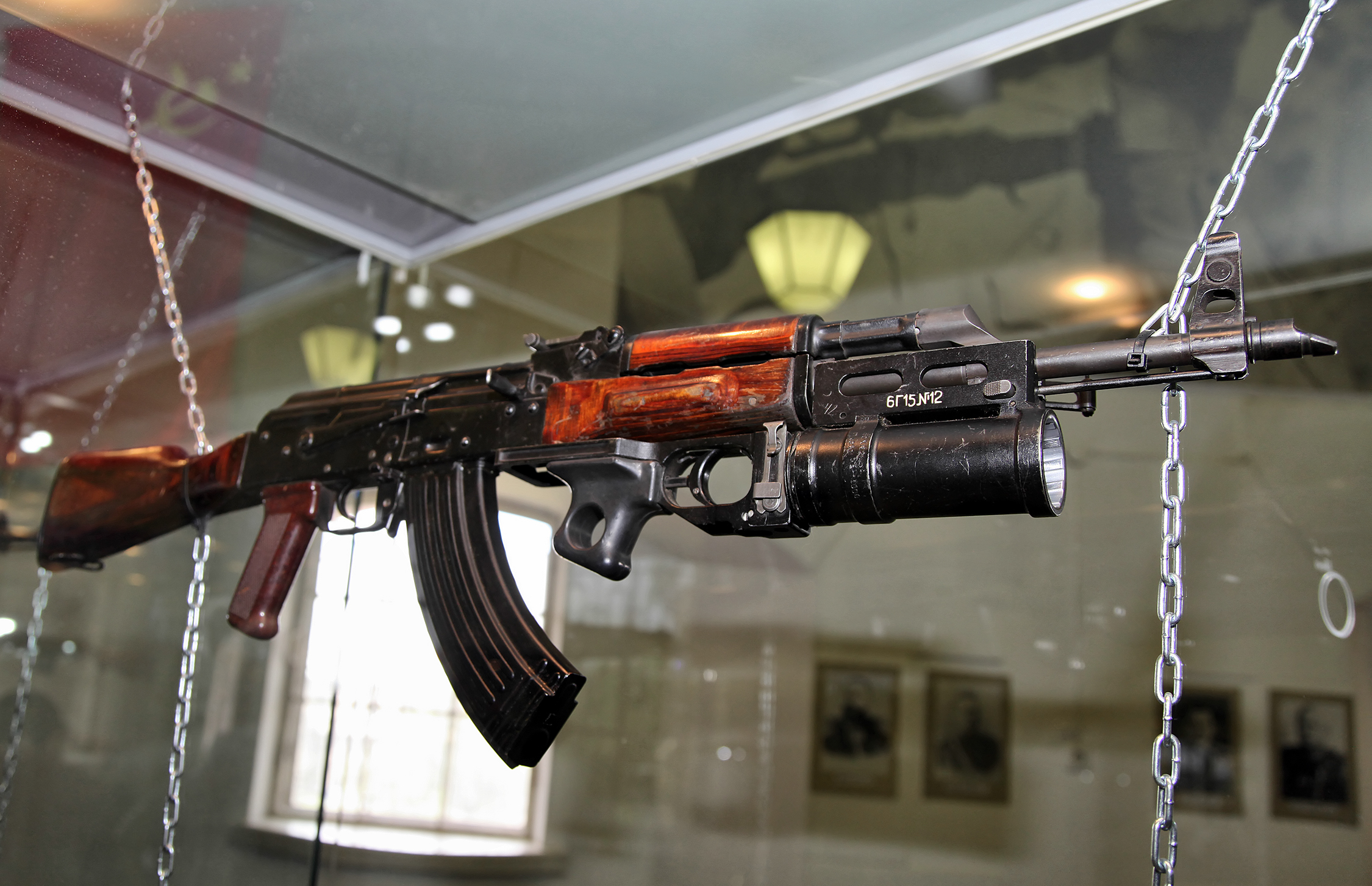 7.62mm assault rifle AKM with GP-25